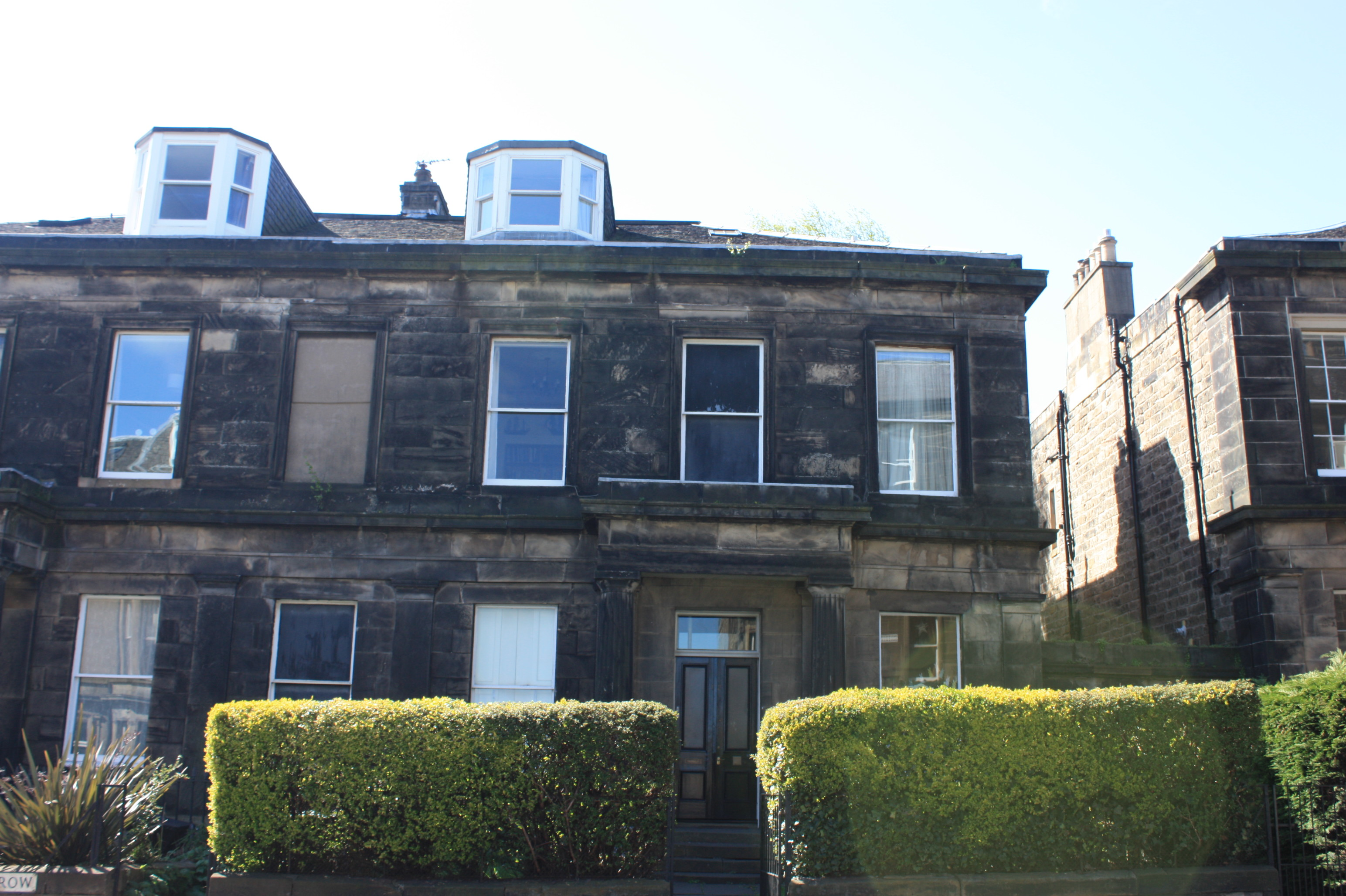 12 Inverleith Row, Edinburgh